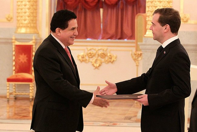 Dmitry Medvedev receives a letter of credence from Ambassador of the Republic of Colombia Rafael Francisco Amador Campos.